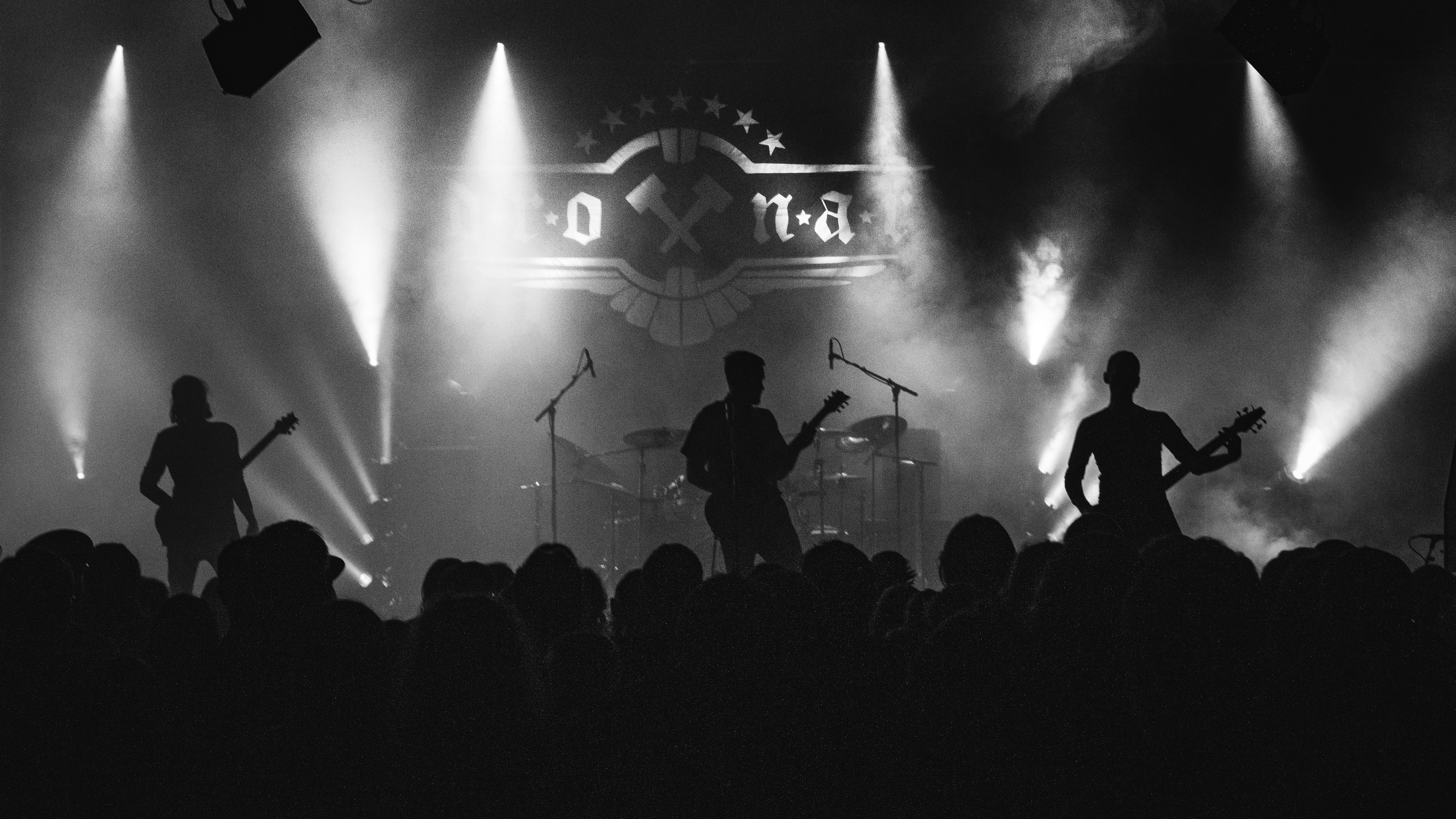 Norwegian metal band Drottnar in concert for Swiss festival "Elements of Rock" of 2019.